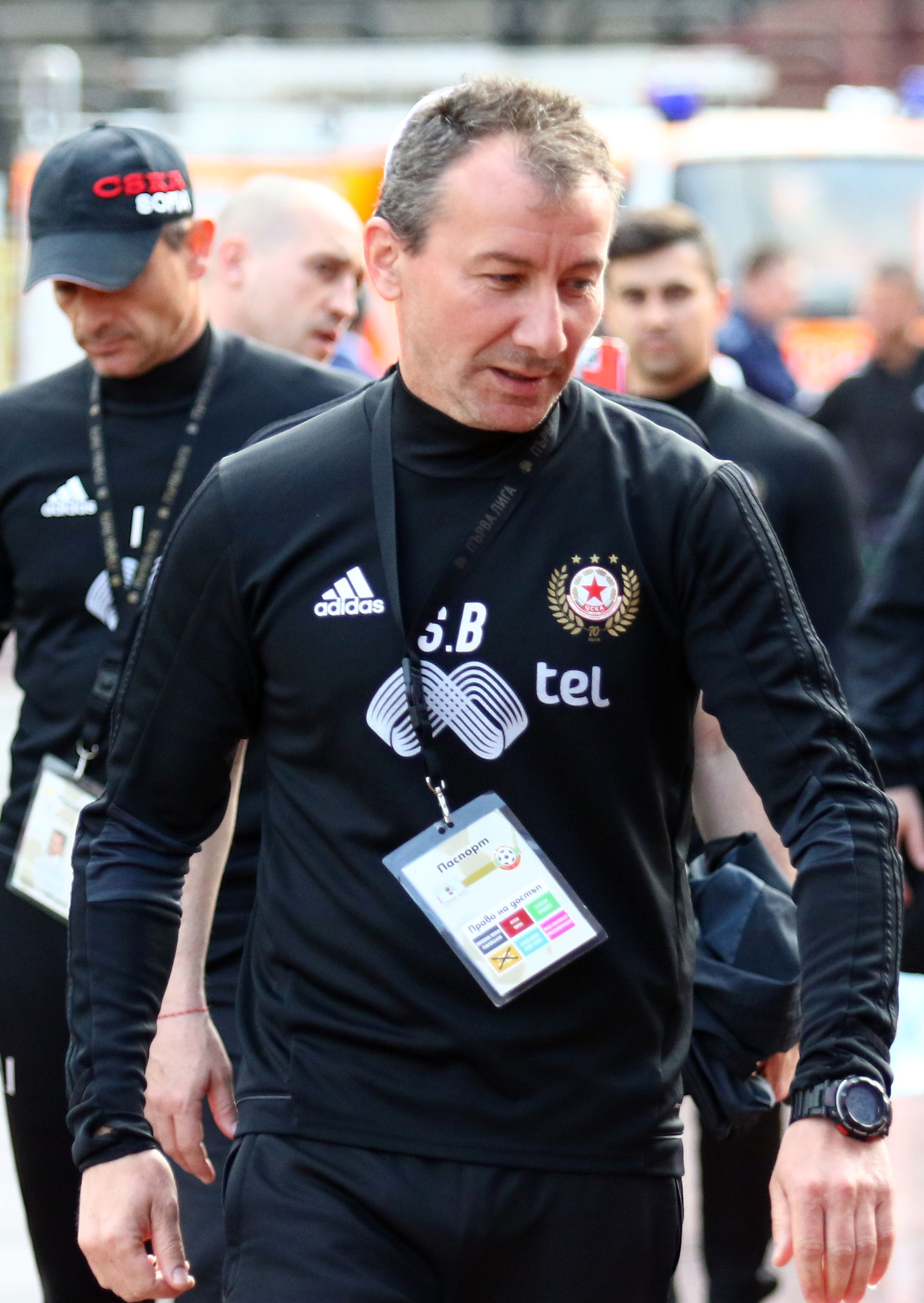 Stamen Belchev (Bulgarian: Стамен Белчев; born 7 May 1969) is a former Bulgarian footballer and now football manager, most recently manager of CSKA Sofia